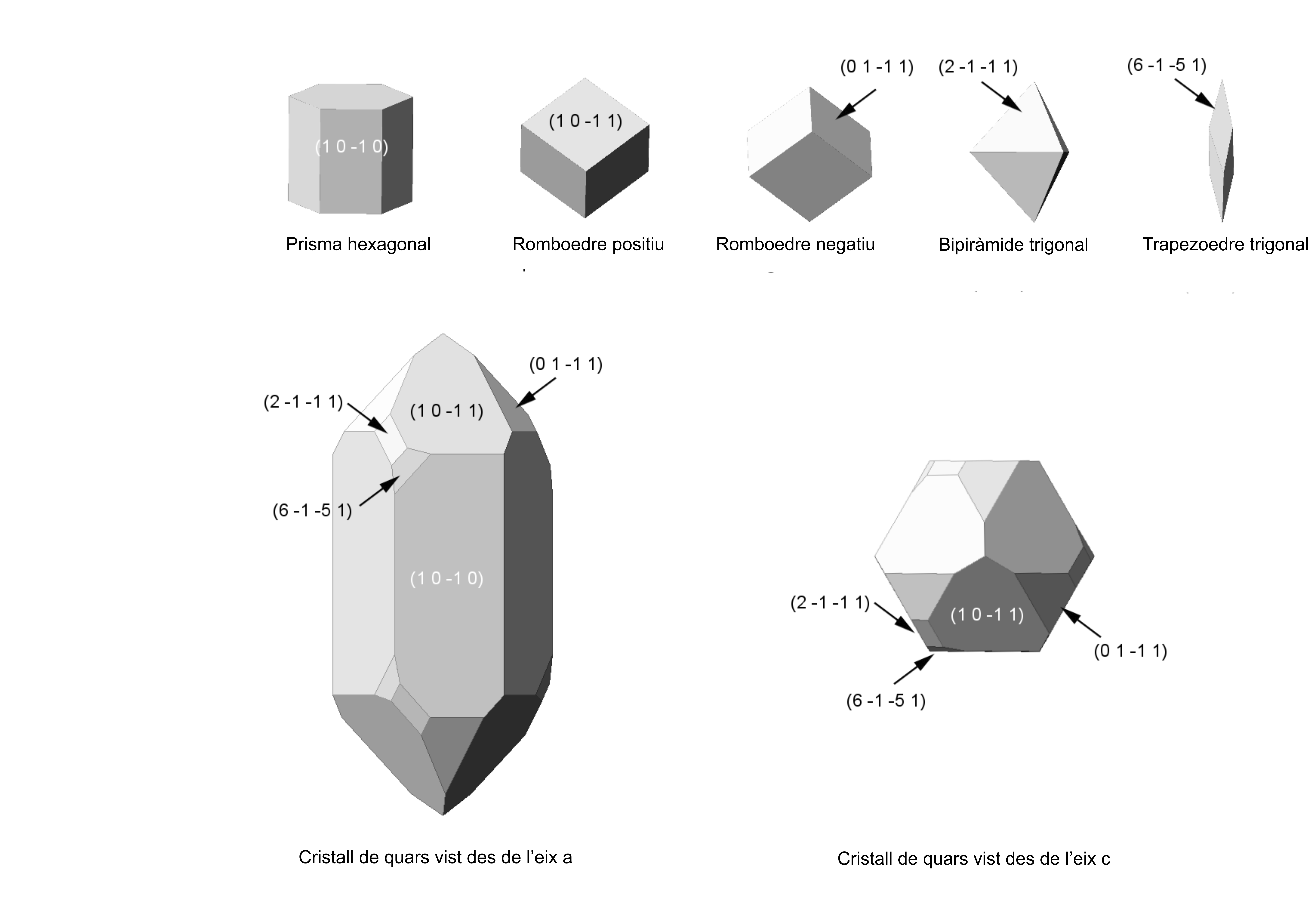 Quartz morphology. Translated picture from German version created by Wolf Bubenik under Commons licence.